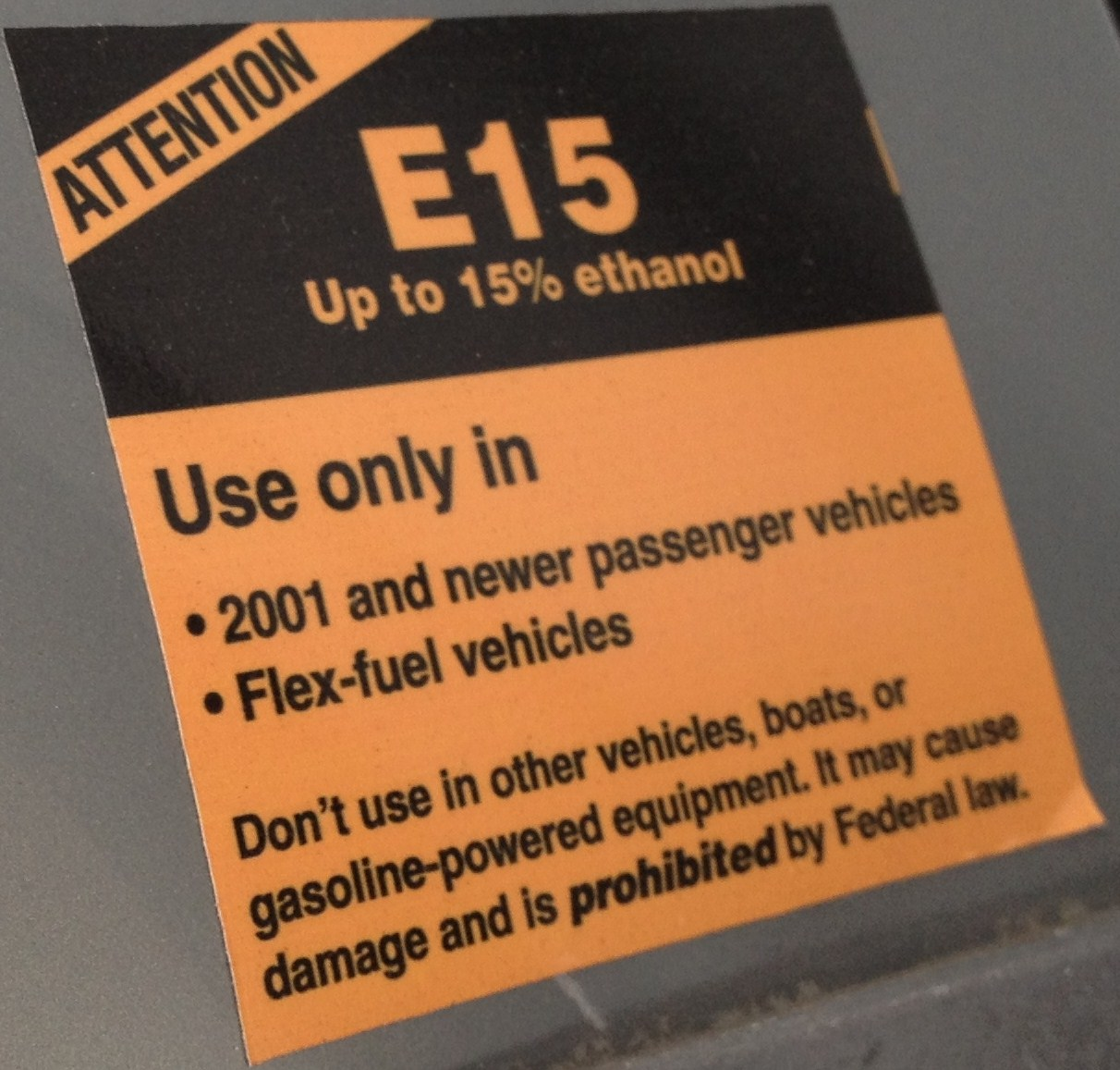 E15 warning sticker on a blender fuels pump